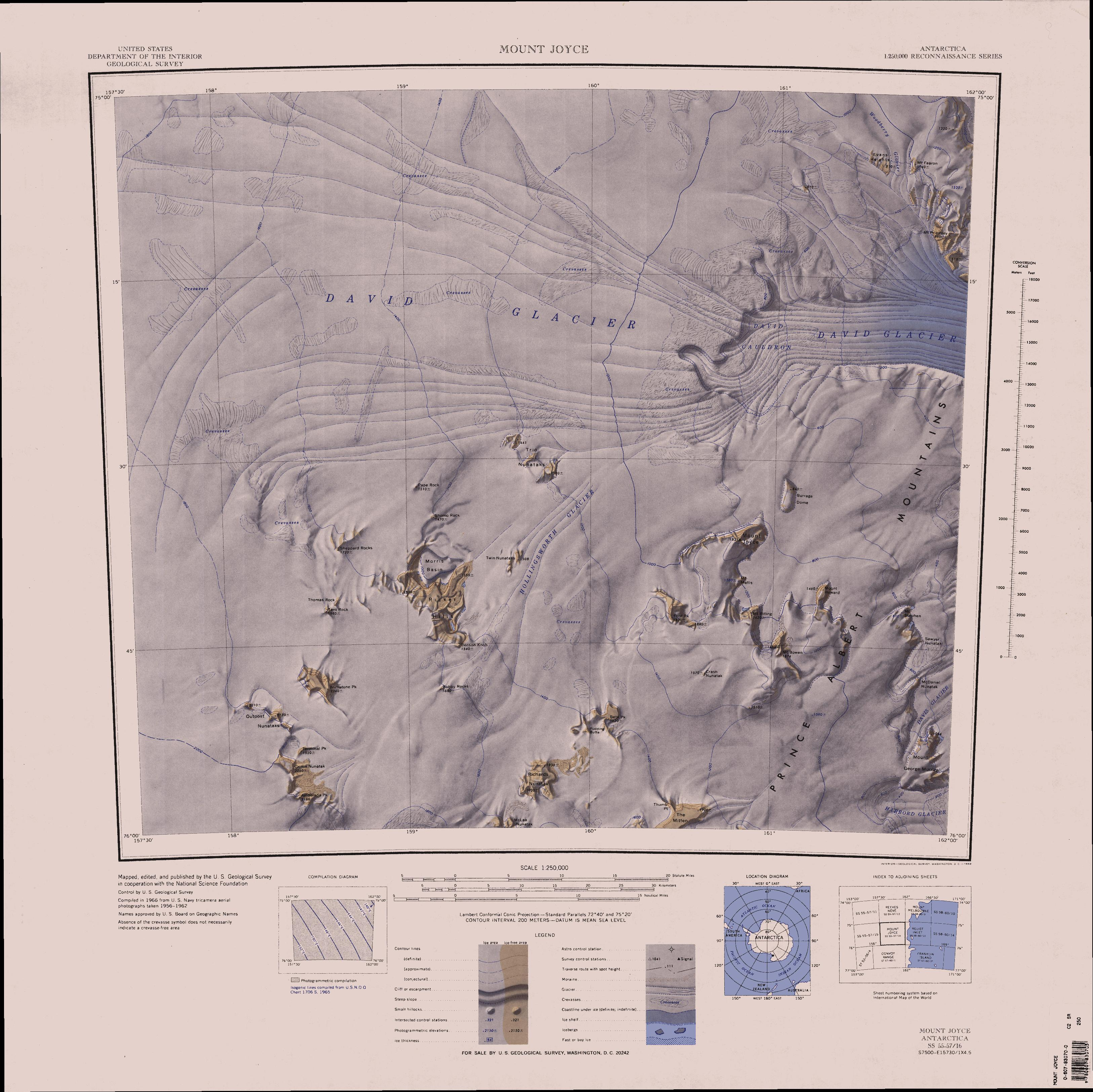 Map of Antarctica by the United States Antarctic Resource Center of the US Geological Society.